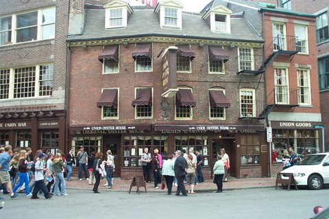 This is my 2008 photo of the Union Oyster House exterior in Boston, Massachusetts.